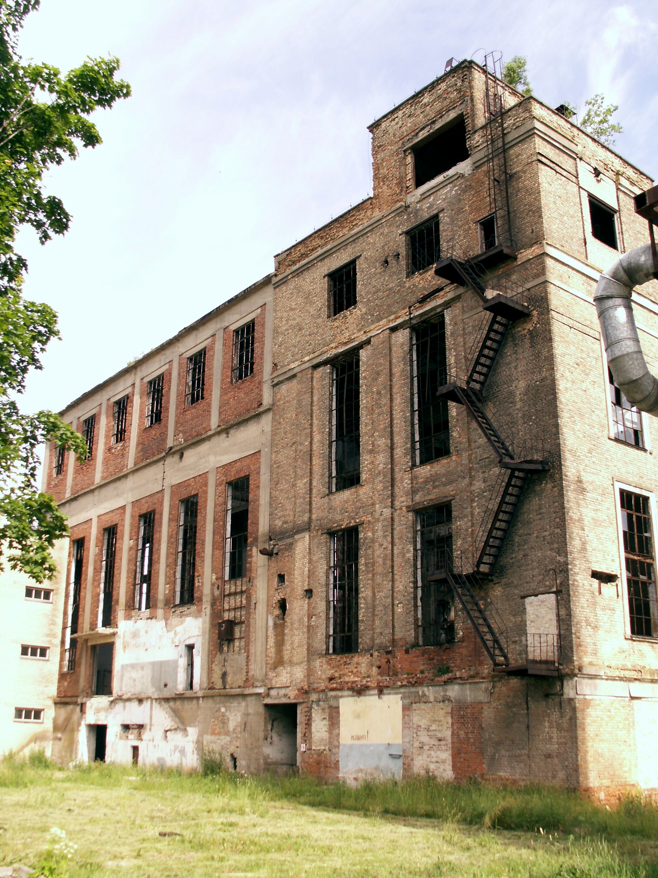 Rėkyva power plant of Šiaulių energija